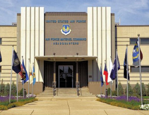 Photo of Air Force Materiel Command HQ, Wright Paterson AFB, Ohio